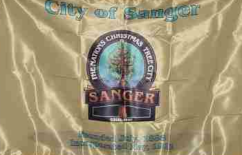 Flag of Sanger, California